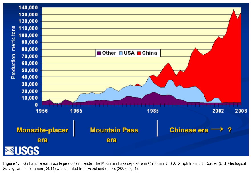 Rare earth oxide production from 1956 to 2008 by country: P.R.C., U.S.A., other